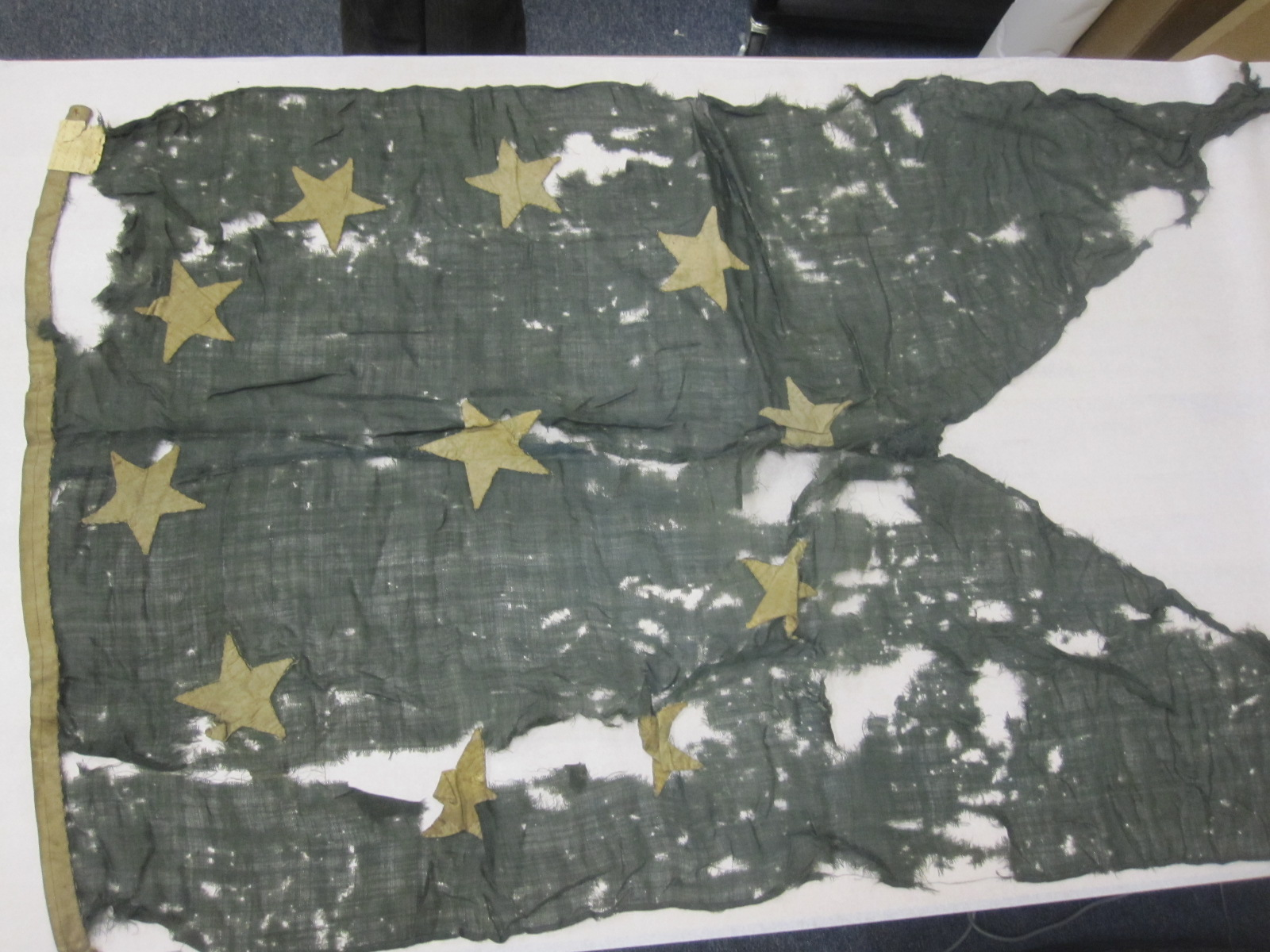 Accession:2011-10-1 Pennant, Personal CSN, Admiral Buchanan. 56"L x 34" W Pennant has a blue background with 10 white stars in a circle and one at the center The pennant was flown over the CSS Nashville. A note attached to the hoist of the flag reads, " Pennant of the rebel Admiral Buchanon of the ram "Nashville" from the "Confederate " navy yard at Mobile Alabama. Captured in Mobile Bay April 12th 1865, by John R. Carmody of US Ironclad Cincinnati." Collection of Curator Branch Naval History and Heriatge Command.